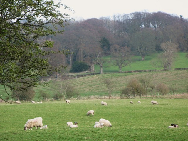 The site of Milecastle 27 (3), near to Low Brunton, Northumberland, Great Britain. Photo taken from the trackbed of the (former) Border Counties railway line near Chesters bridge abument in NY9170. Looking towards NY9269 : Hadrian's Wall at Brunton .